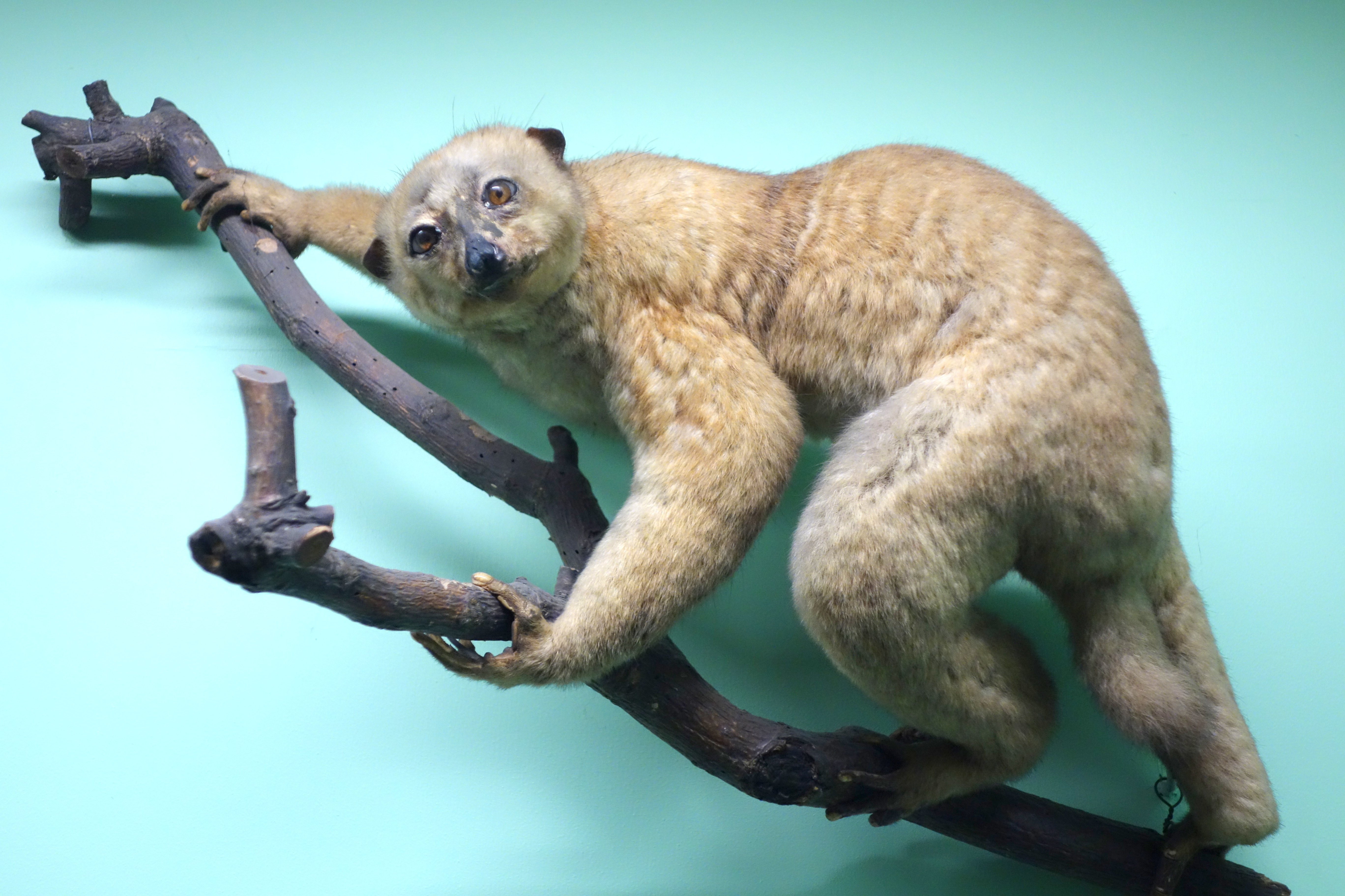 Exhibit in the Royal Museum for Central Africa, Tervuren, Belgium.